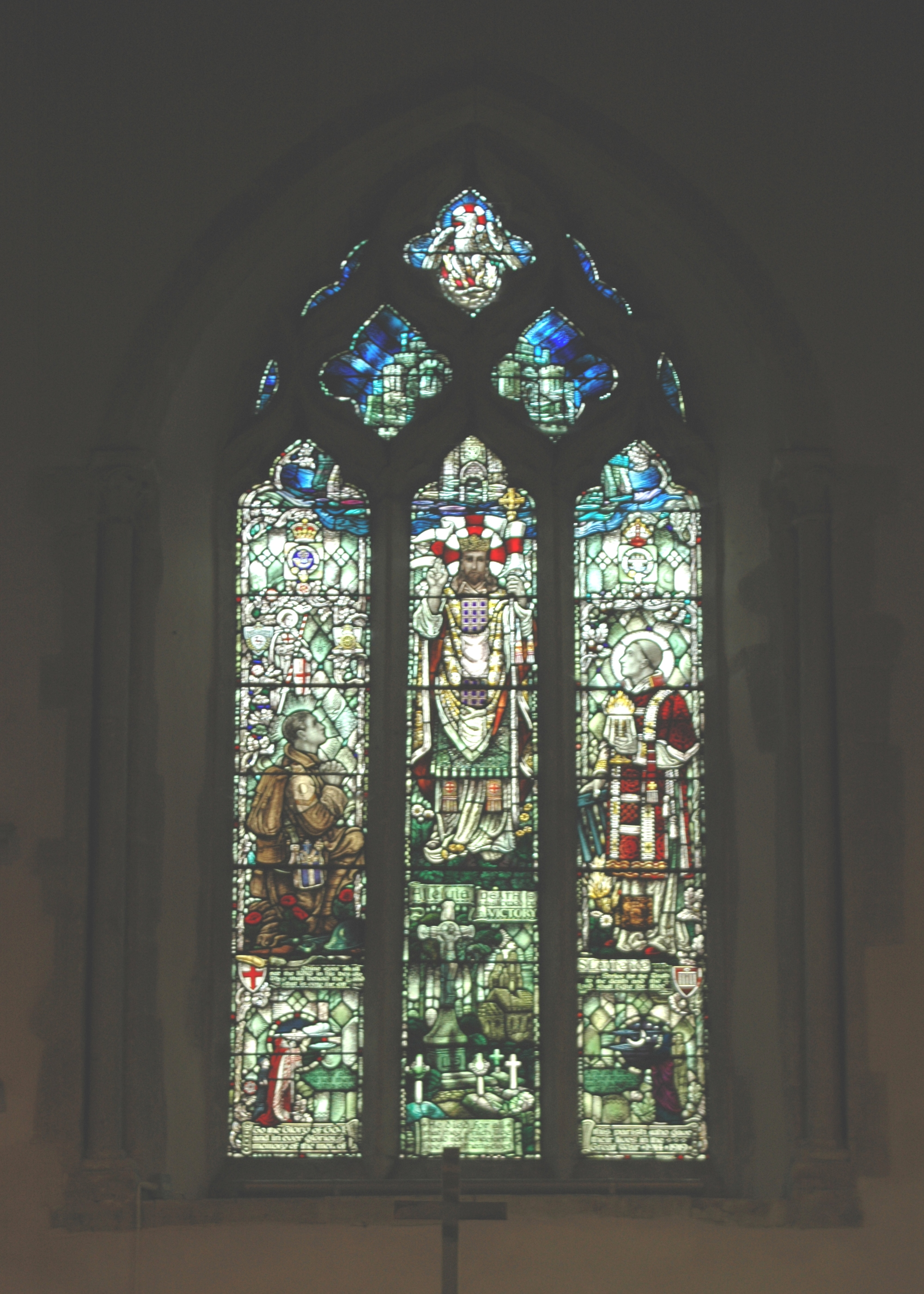 Church of England parish church of St Laurence, Warborough, Oxfordshire: east window of chancel